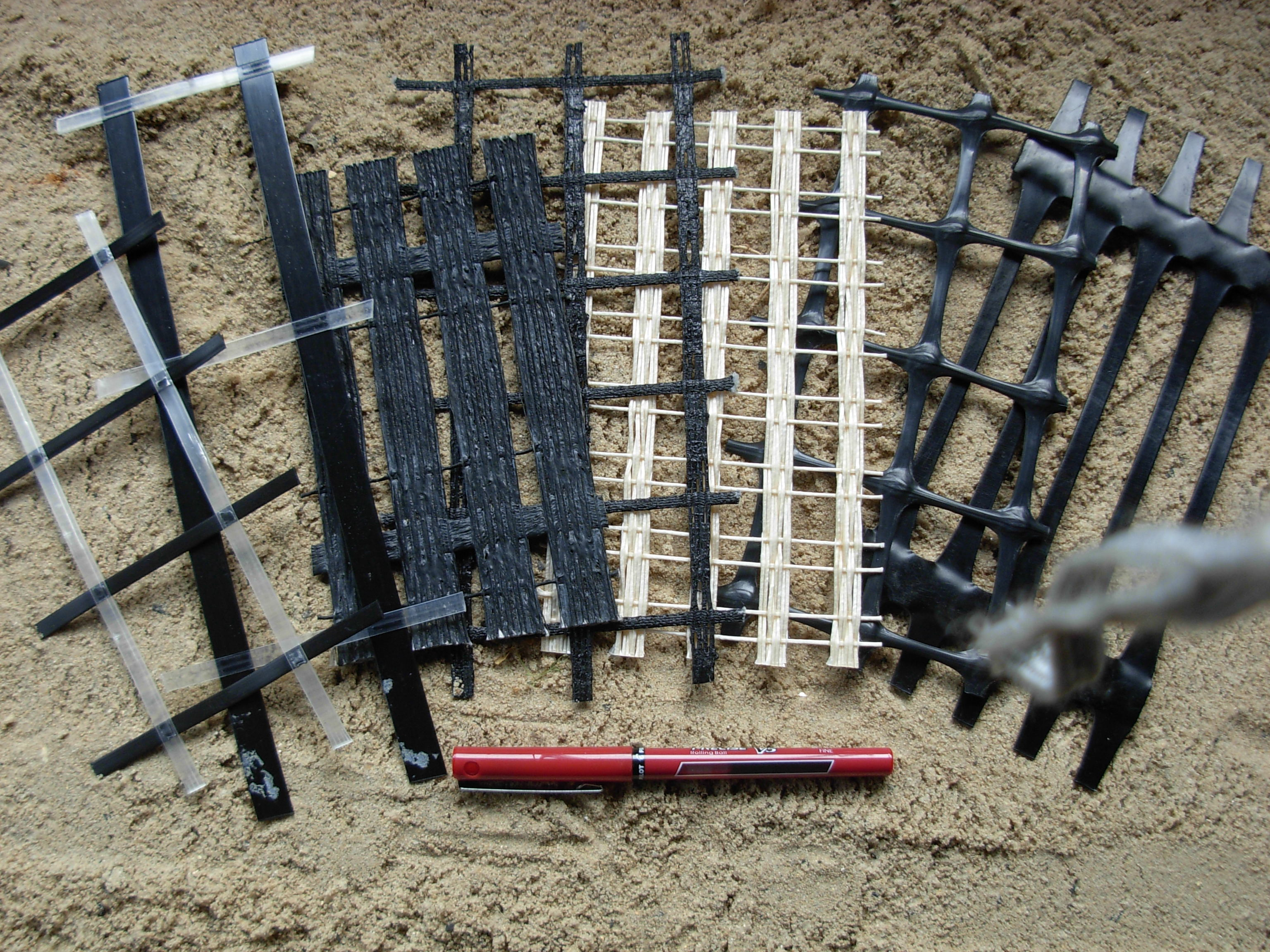 Geogrids